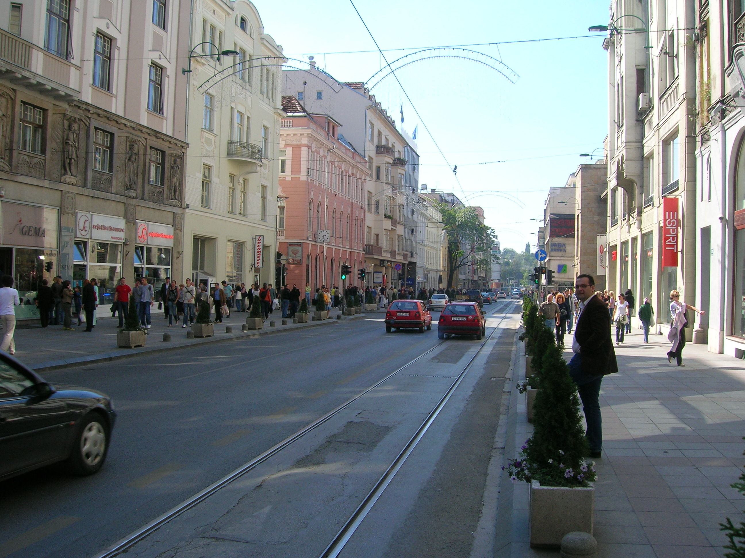 The first part of the street in pedestrianised, but the rest is open to traffic